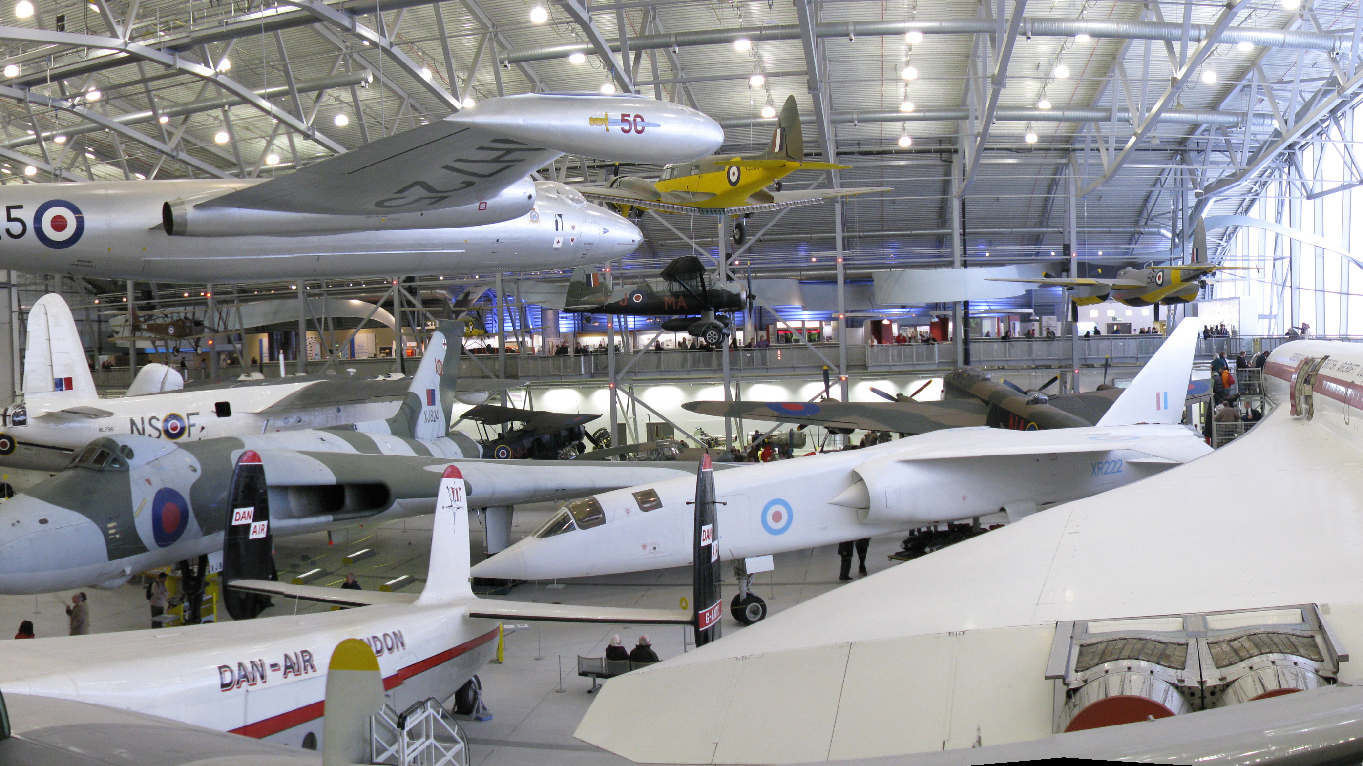 View of the AirSpace exhibition hall at Imperial War Museum Duxford. See also File:Panoramaairspaceimperialwarmuseumduxford.jpg